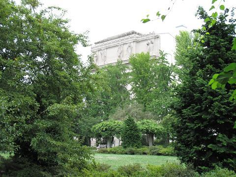 Description: Brooklyn Botanic Garden - Source: own work - Author: self, User:Stavenn